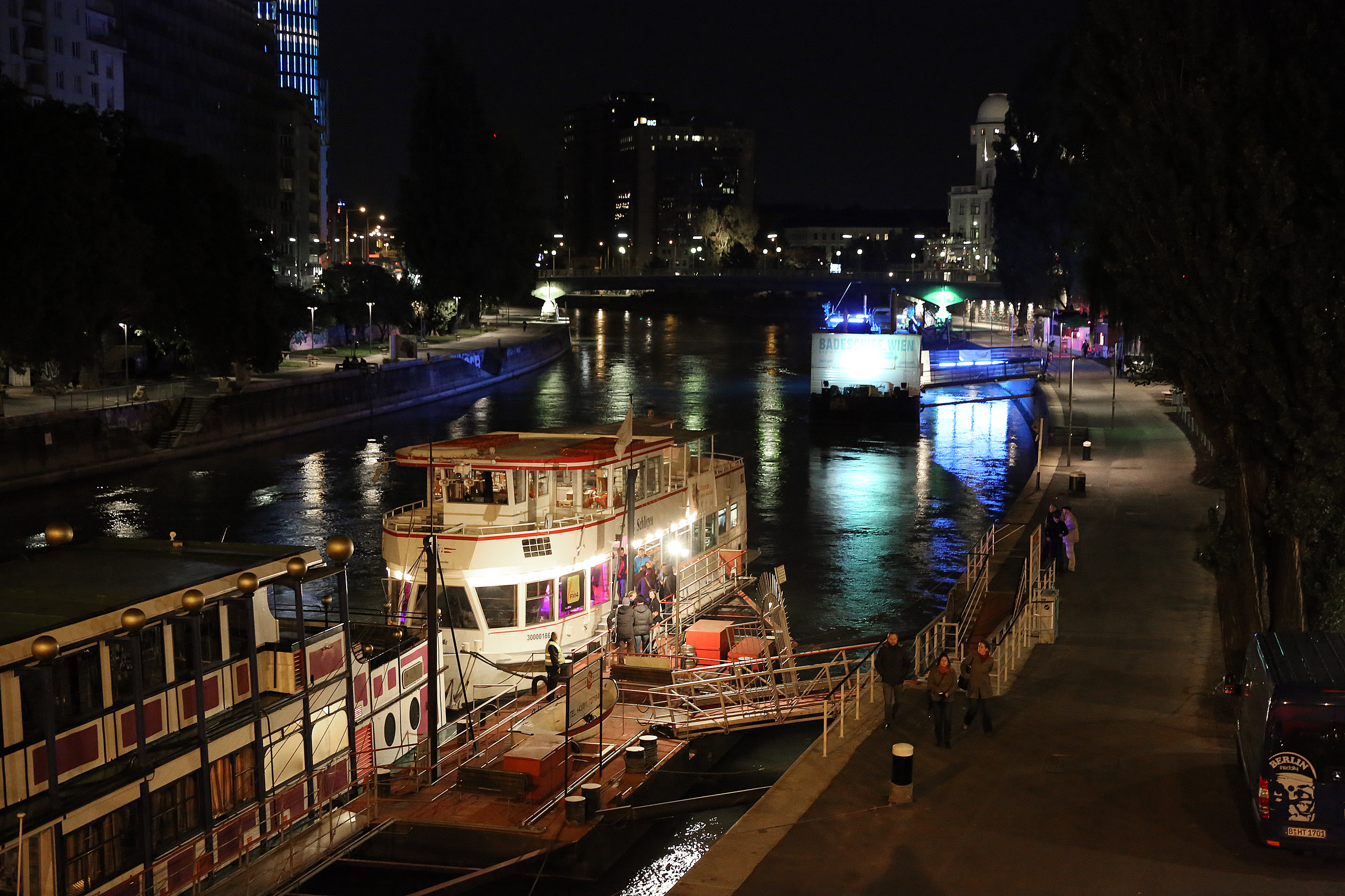 Marla Blumenblatt - concert on MS Schlögen during Waves Vienna Music Festival & Conference 2013 in Vienna, Austria.